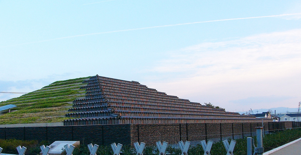 Earthen pagoda at Onodera Temple begins. Sakai-city, Osaka, Japan, about ACE727